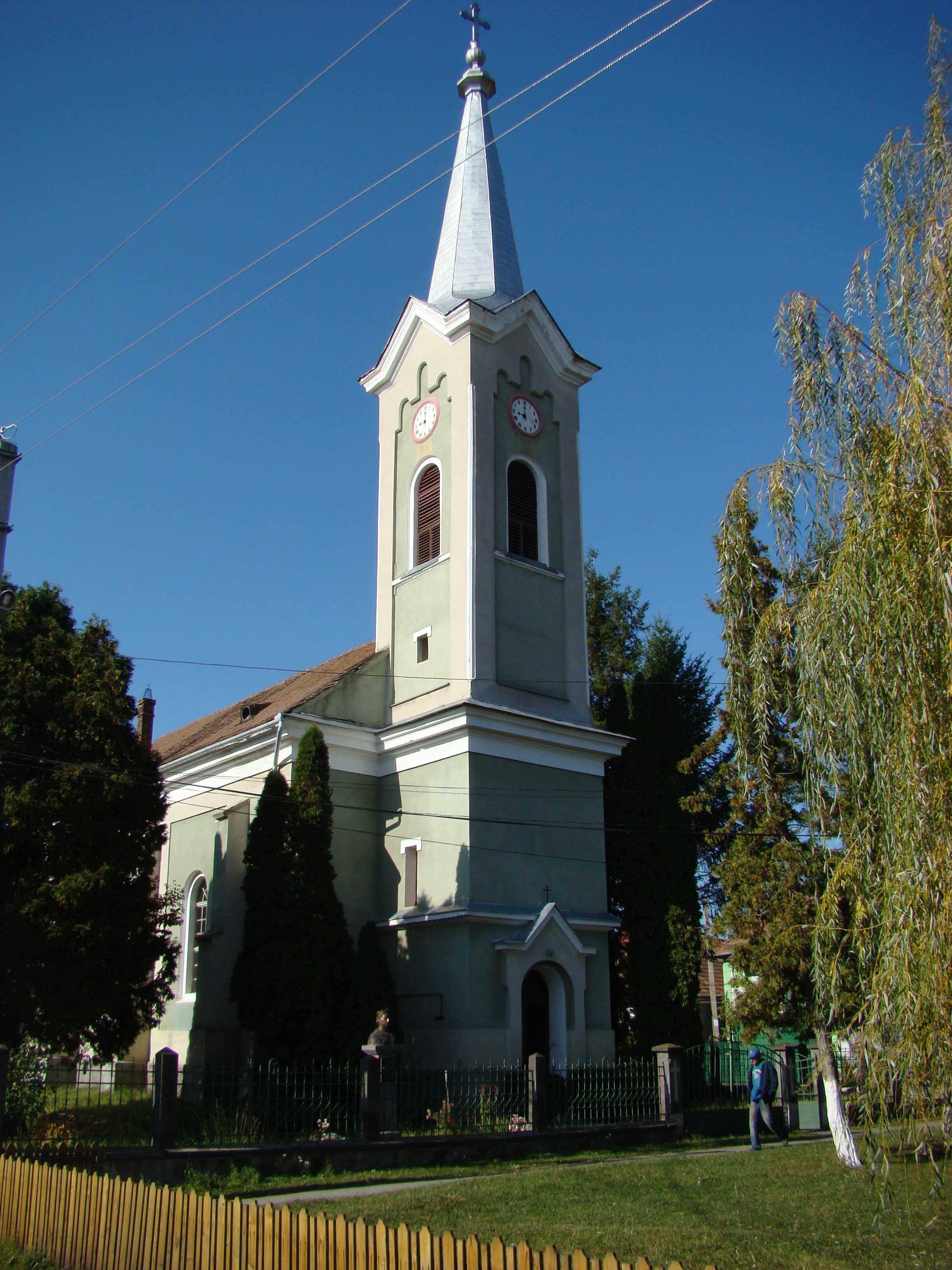 Roman Catholic church in Gurghiu (Görgényszentimre), Romania